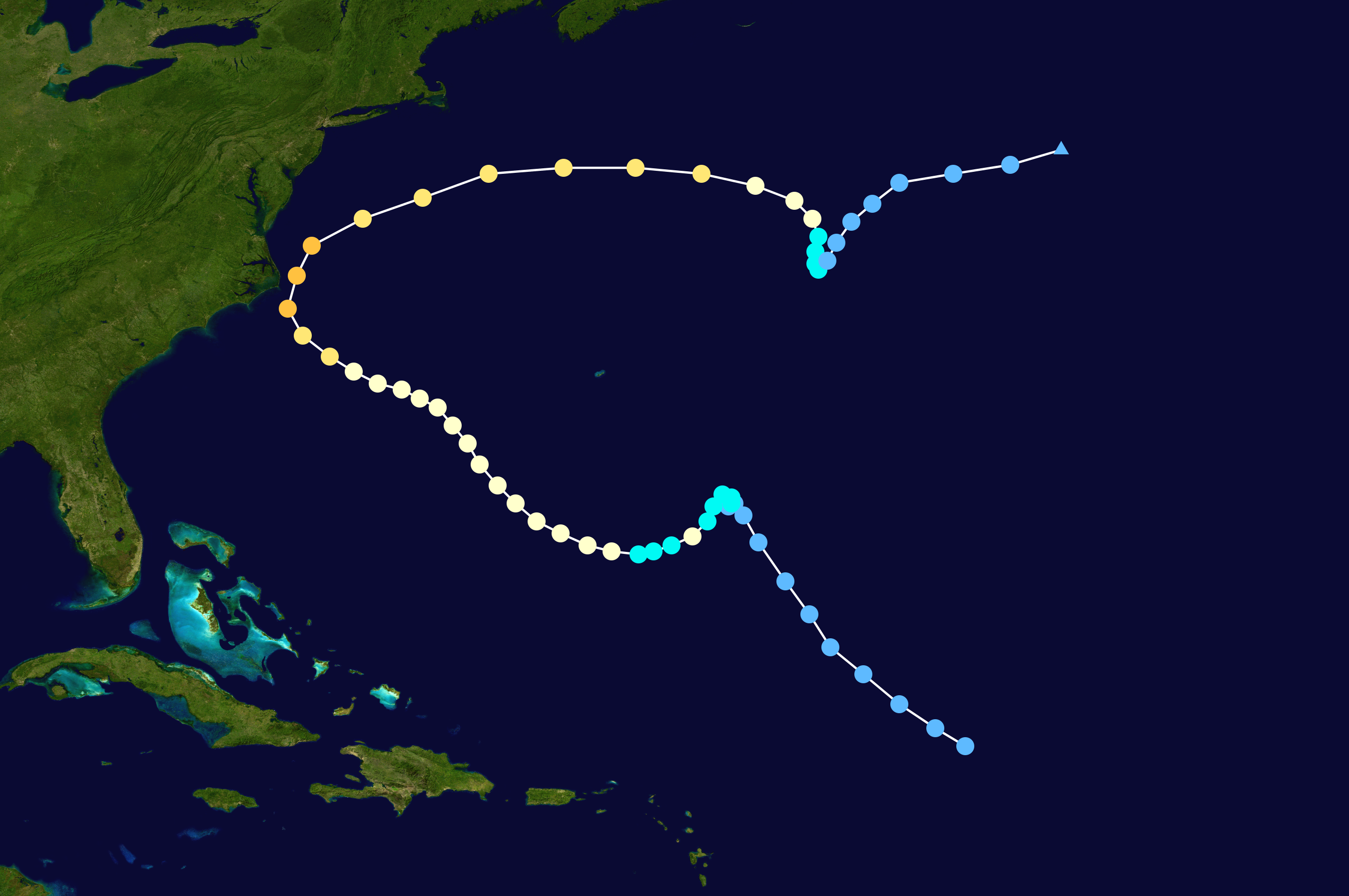 Track map of Hurricane Emily of the 1993 Atlantic hurricane season. The points show the location of the storm at 6-hour intervals. The colour represents the storm's maximum sustained wind speeds as classified in the Saffir–Simpson scale (see below), and the shape of the data points represent the nature of the storm, according to the legend below. Saffir–Simpson scale Tropical depression≤38 mph≤62 km/h Category 3111–129 mph178–208 km/h Tropical storm39–73 mph63–118 km/h Category 4130–156 mph209–251 km/h Category 174–95 mph119–153 km/h Category 5≥157 mph≥252 km/h Category 296–110 mph154–177 km/h Unknown Storm type Tropical cyclone Subtropical cyclone Extratropical cyclone / Remnant low / Tropical disturbance / Monsoon depression